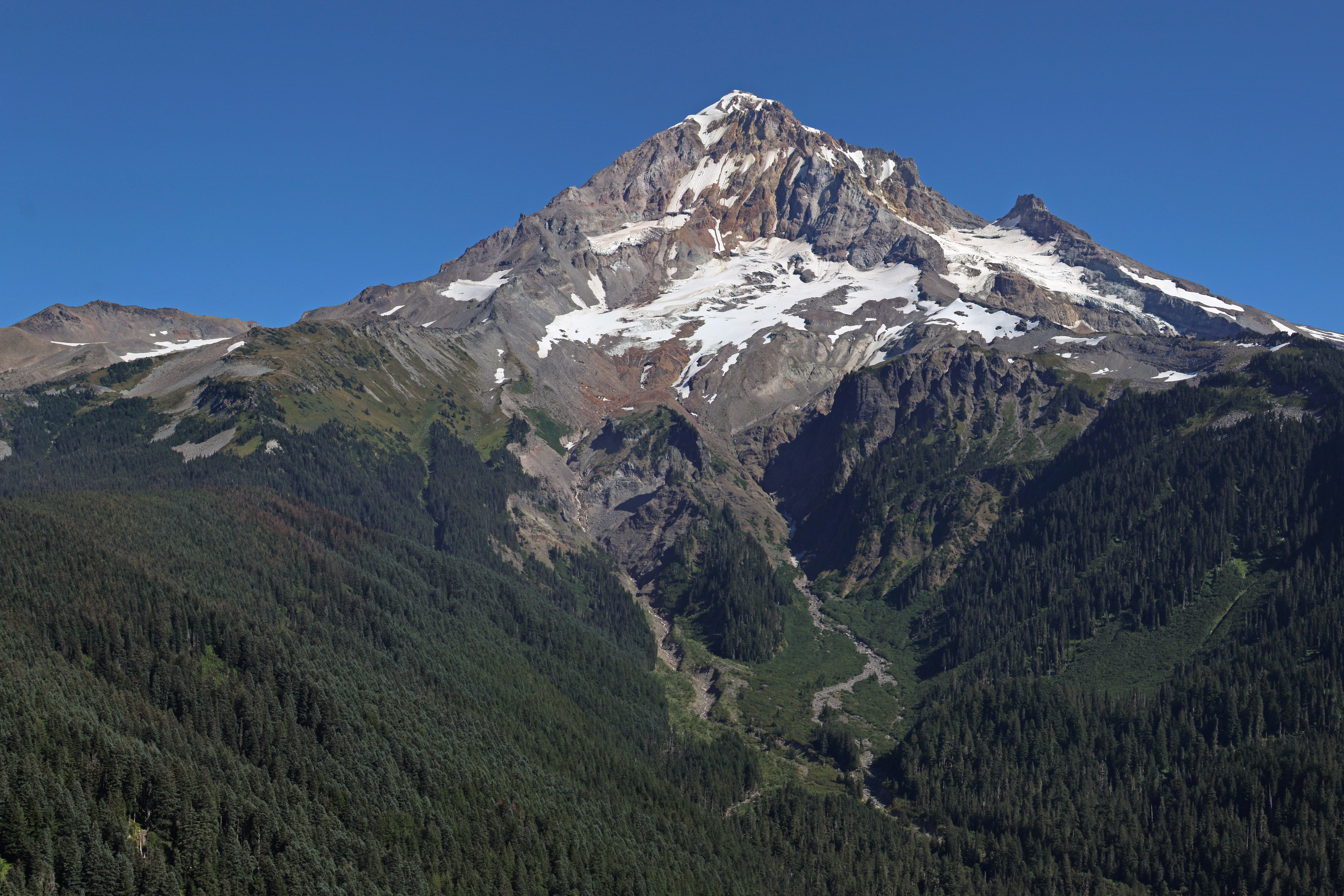 Mount Hood with Sandy Glacier (center); Illumination Rock (9548 feet, right skyline) above Reid Glacier; Barrett Spur (7863 feet, left skyline); Yocum Ridge divides Reid and Sandy Glaciers; Sandy Glacier is the source of the Muddy Fork of Sandy River; stitched panorama; please see "Other versions" for source images. This image was created with Hugin. Viewpoint location: Bald Mountain Trail (unmaintained), Mount Hood Wilderness Viewpoint elevation: 1408 meter (4618 ft) View direction: 108° Location source: Garmin GPSmap 60CSx Location Datum: WGS84